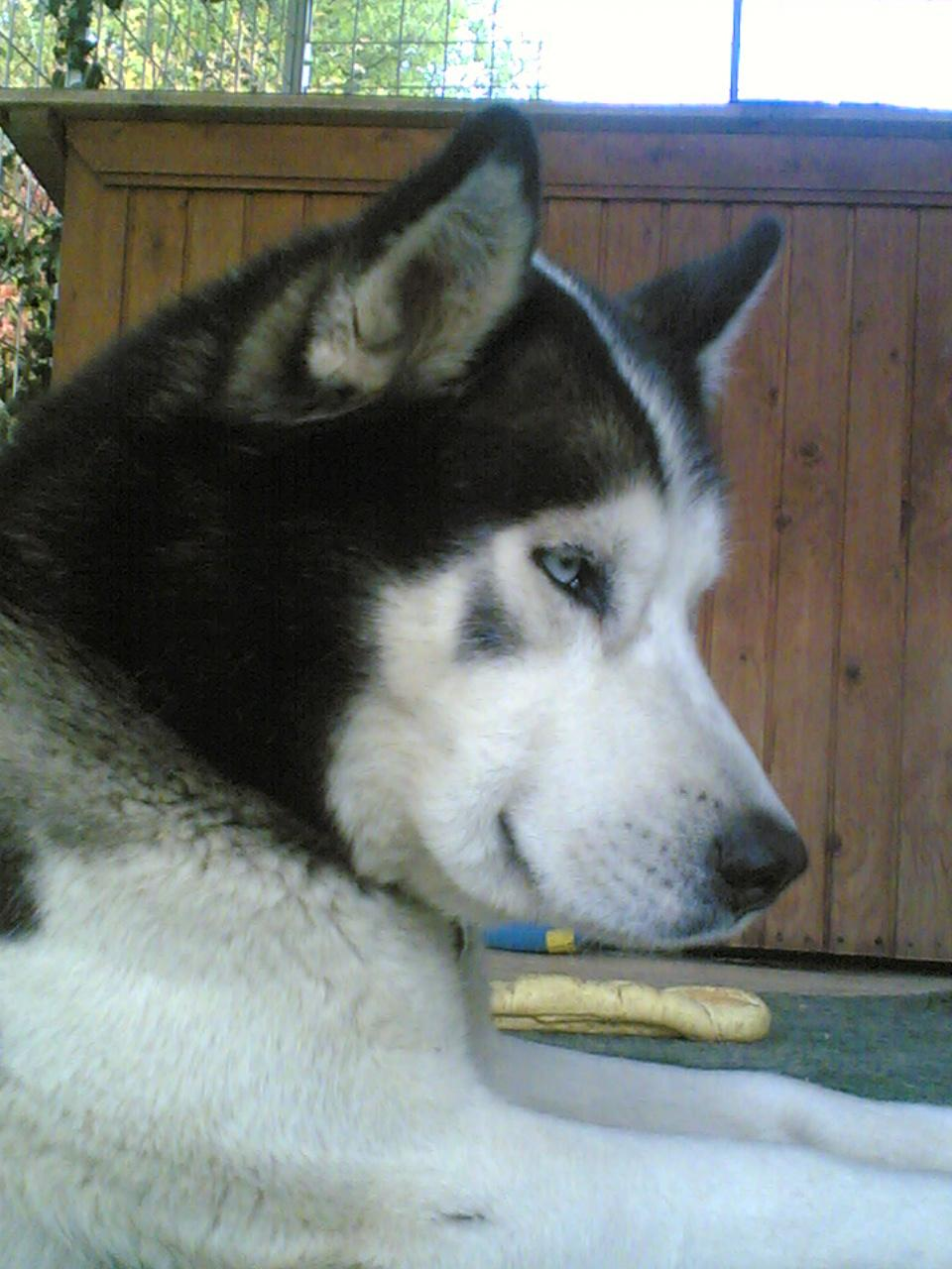 description: Siberian Husky photo taken by Darko Pes